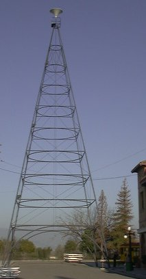 Taken by me January 16, 2005